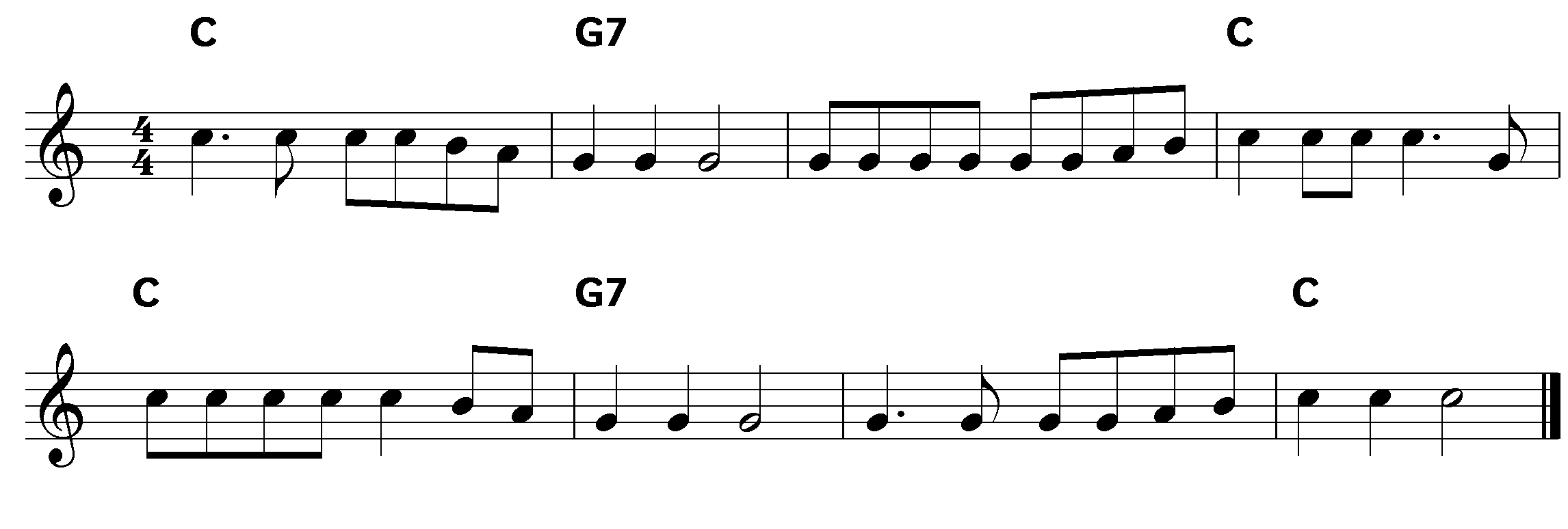 Alternate melody to the German childrens' song «Drei Chinesen mit dem Kontrabass» as sung in Switzerland. File by the uploader, released into PD since the song as such is not copyrighted